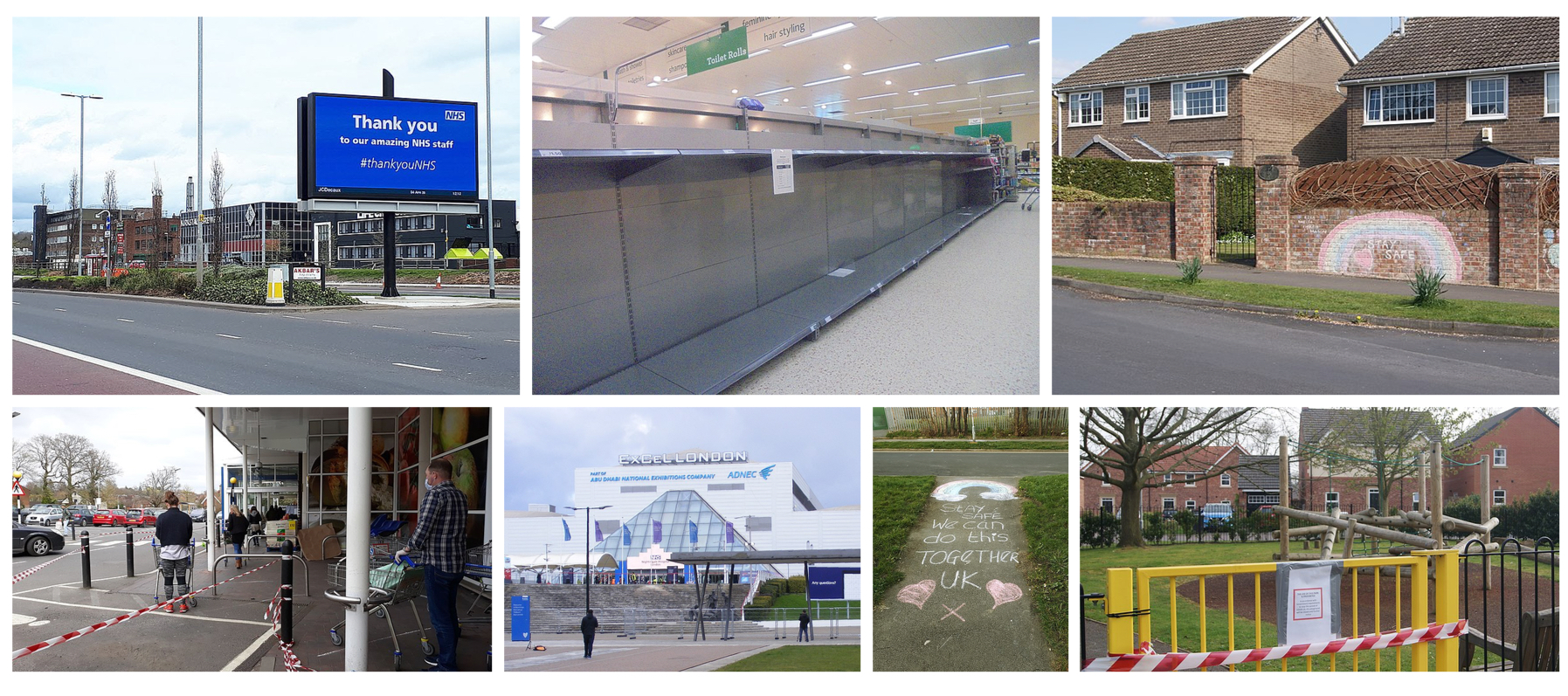 COVID 19 in England collage made of other pictures on Commons. 1. File:Thank you NHS, Kirkstall Road, Leeds (geograph 6437264).jpg 2. File:Depleted lavatory rolls during the 2020 Coronavirus outbreak, Morrisons, Wetherby (20th March 2020).jpg 3. File:House on Aire Road, Wetherby showing a rainbow, a symbol used by children in self-isolation during the 2020 Coronavirus pandemic (8th April 2020).jpg 4. File:Social distancing during COVID-19 pandemic, Haslemere 02.jpg 5. File:NHS Nightingale Hospital London main entrance (2) (cropped).jpg 6. File:Chalk rainbow on Landseer Crescent (geograph 6425461).jpg 7. File:Playground, Noble Crescent, Wetherby on Good Friday under lockdown (10th April 2020) 002.jpg